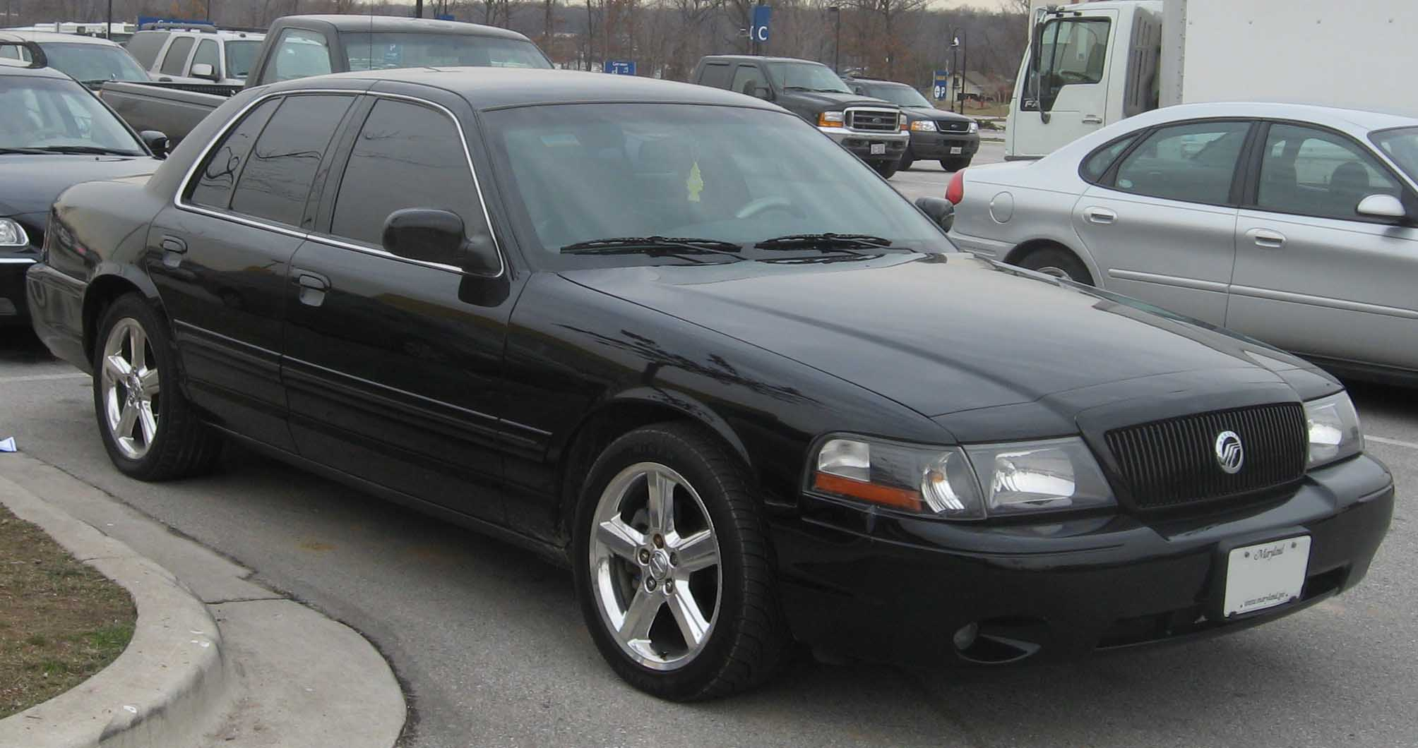 2003-2004 Mercury Marauder photographed in College Park, Maryland, USA.